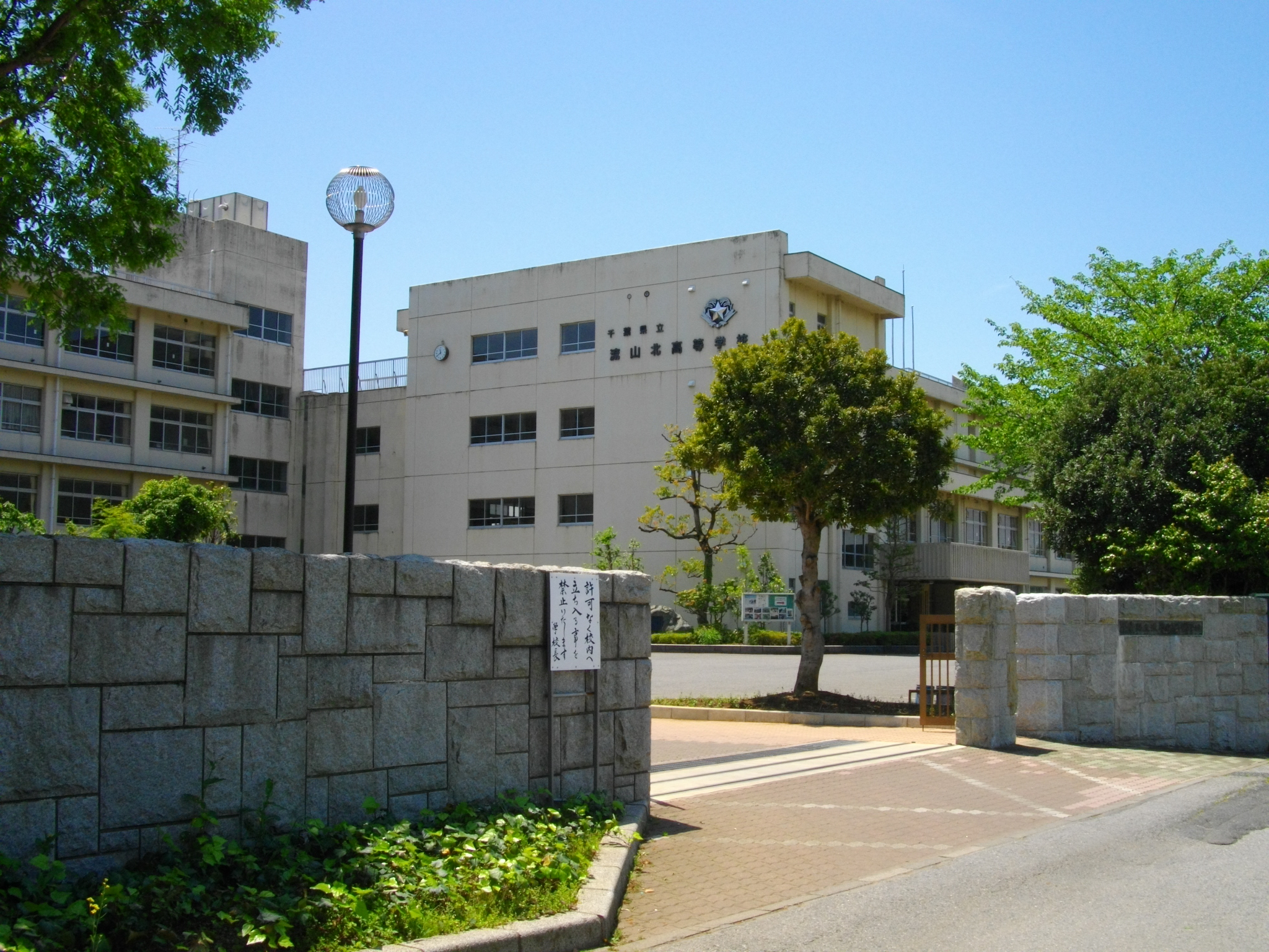 Nagareyama-Kita High School